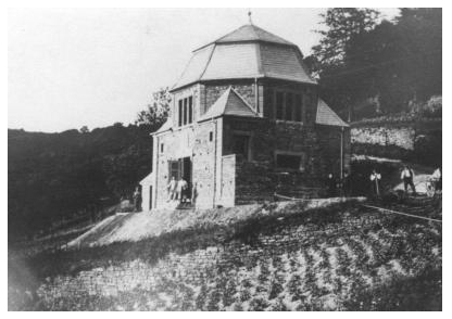 Synagogue of Kyllburg in Germany; built in 1911; Destroyed by the nazis during Kristal Nacht in 1938.